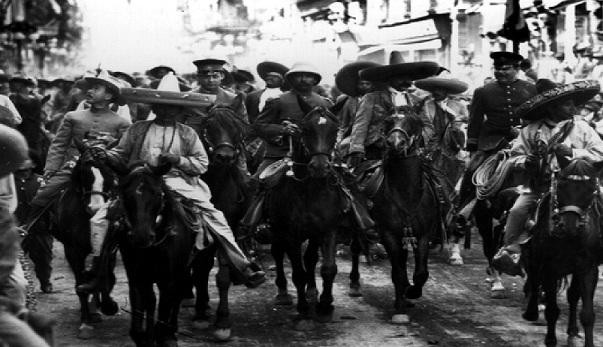 Entrada